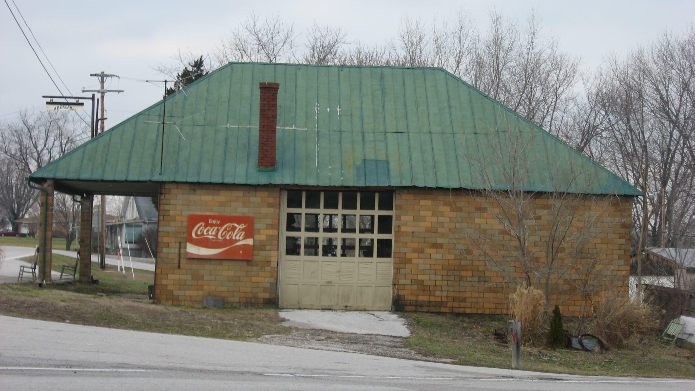 Eastern side of an old gas station at Sulphur in Union Township, Crawford County, Indiana, United States. It lies at the junction of State Roads 62, 66, and 237.